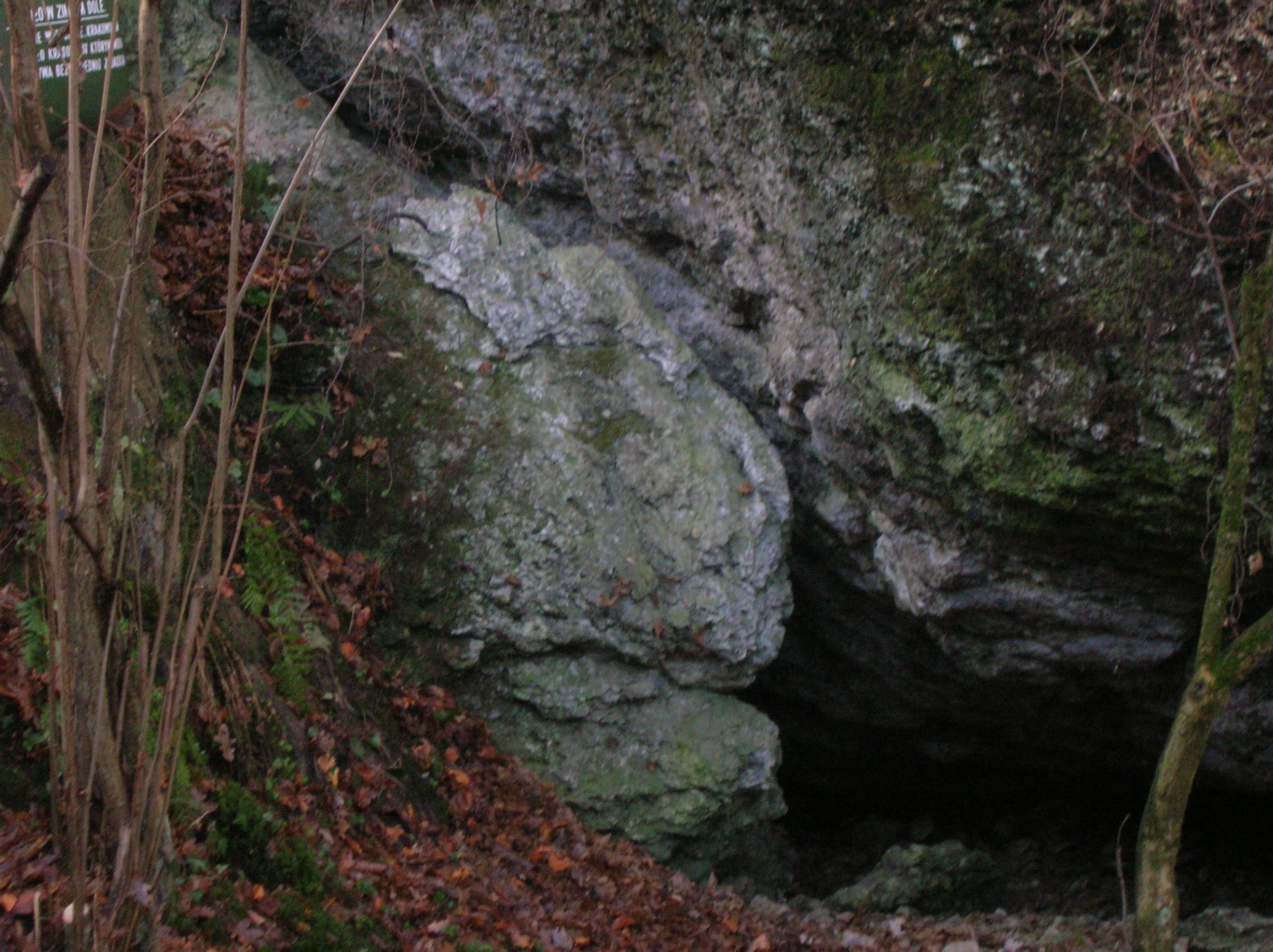 Źródło Zimny Dół